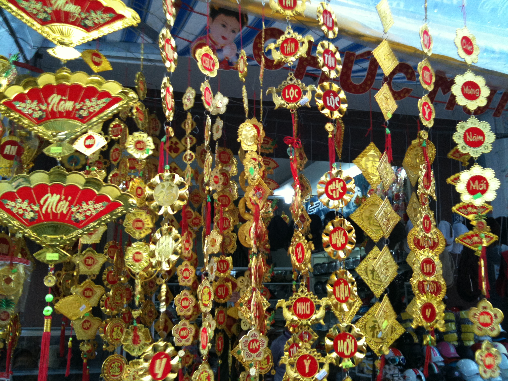 Hanging streamers for Tet, seen in a Da Nang shop.